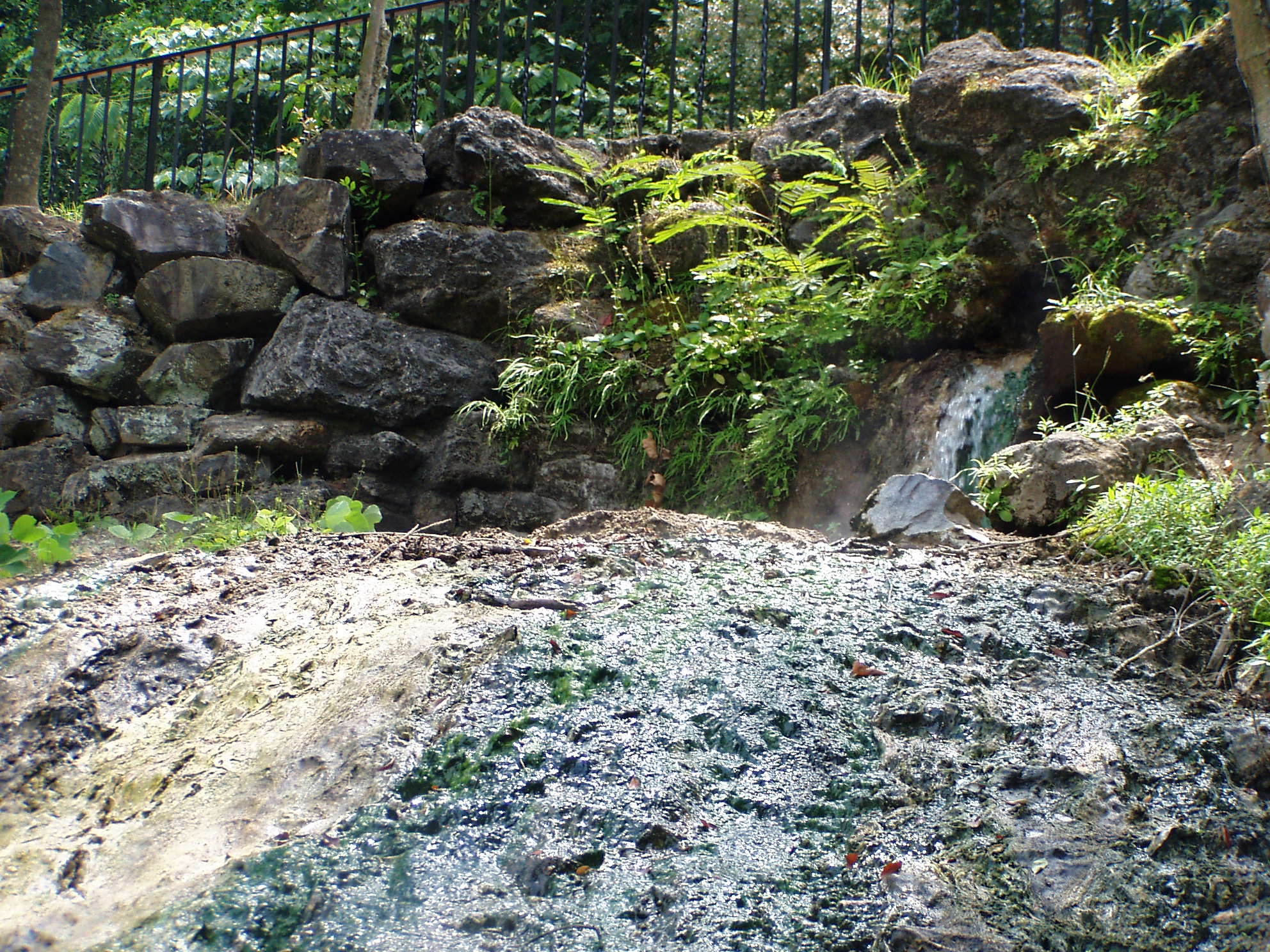 Hot Springs National Park